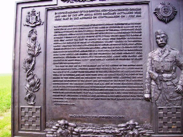 Hearts of Midlothian Memorial at Contalmaison